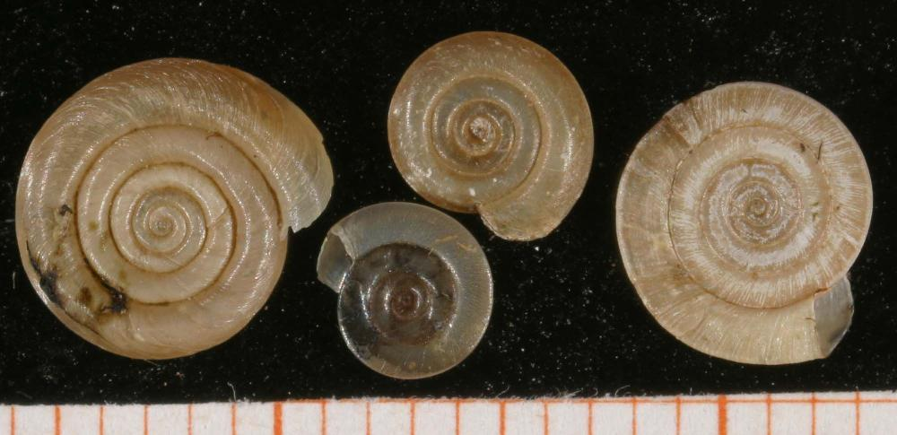 Shells of Anisus vortex (Linné, 1758). Locality: Großer Seegeberger See, Schleswig-Holstein, Germany.